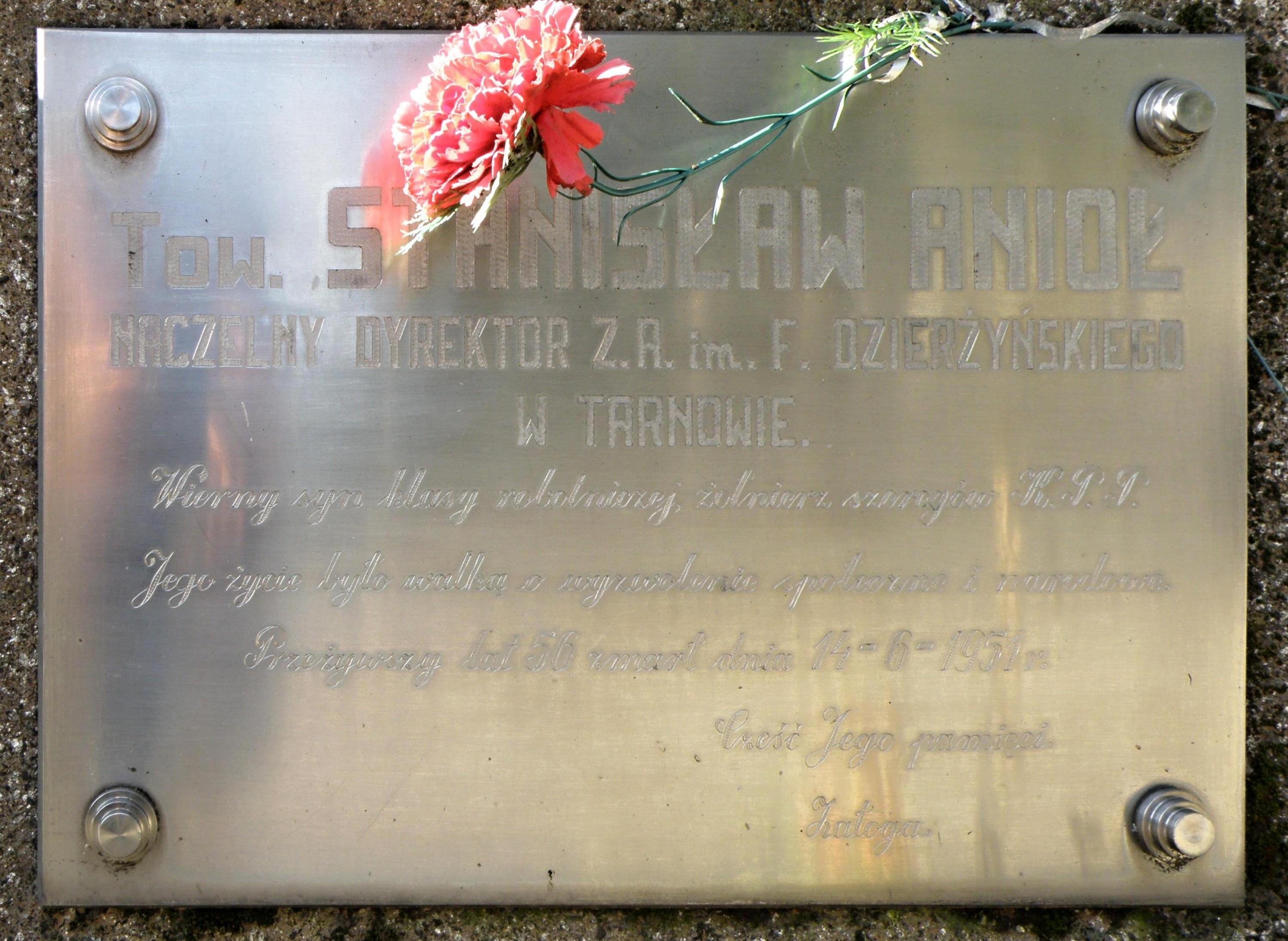 Stanisław Anioł (+1951) - tablica na grobie (cmentarz komunalny w Tarnowie-Mościcach). Treść: Tow. STANISŁAW ANIOŁ NACZELNY DYREKTOR Z.A. IM. F. DZIERŻYŃSKIEGO W TARNOWIE Wierny syn klasy robotniczej, żołnierz szeregów K.P.P. Jego życie było walką o wyzwolenie społeczne i narodowe. Przeżywszy lat 56 zmarł dnia 14-6-1951r. Cześć jego pamięci. Załoga.